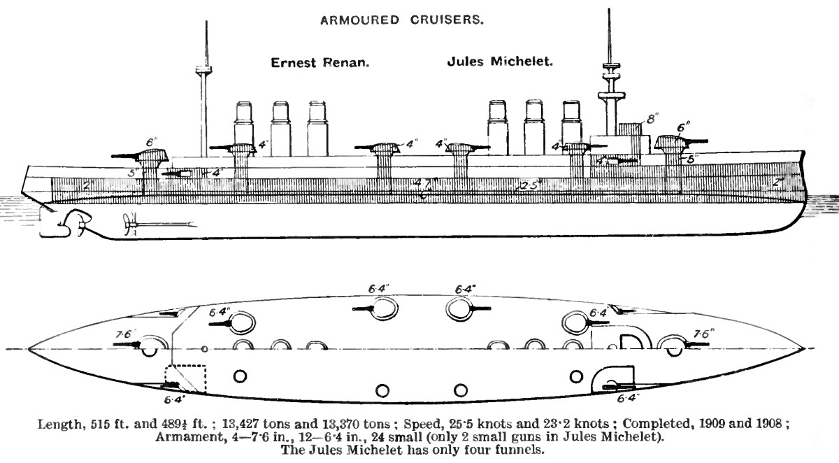 Right elevation and deck plan depicting French armoured cruiser Ernest Renan. Top (right side elevation) shows armour thickness in inches. Bottom (deck plan) shows gun sizes in inches.